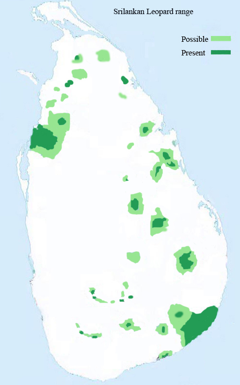 edited picture